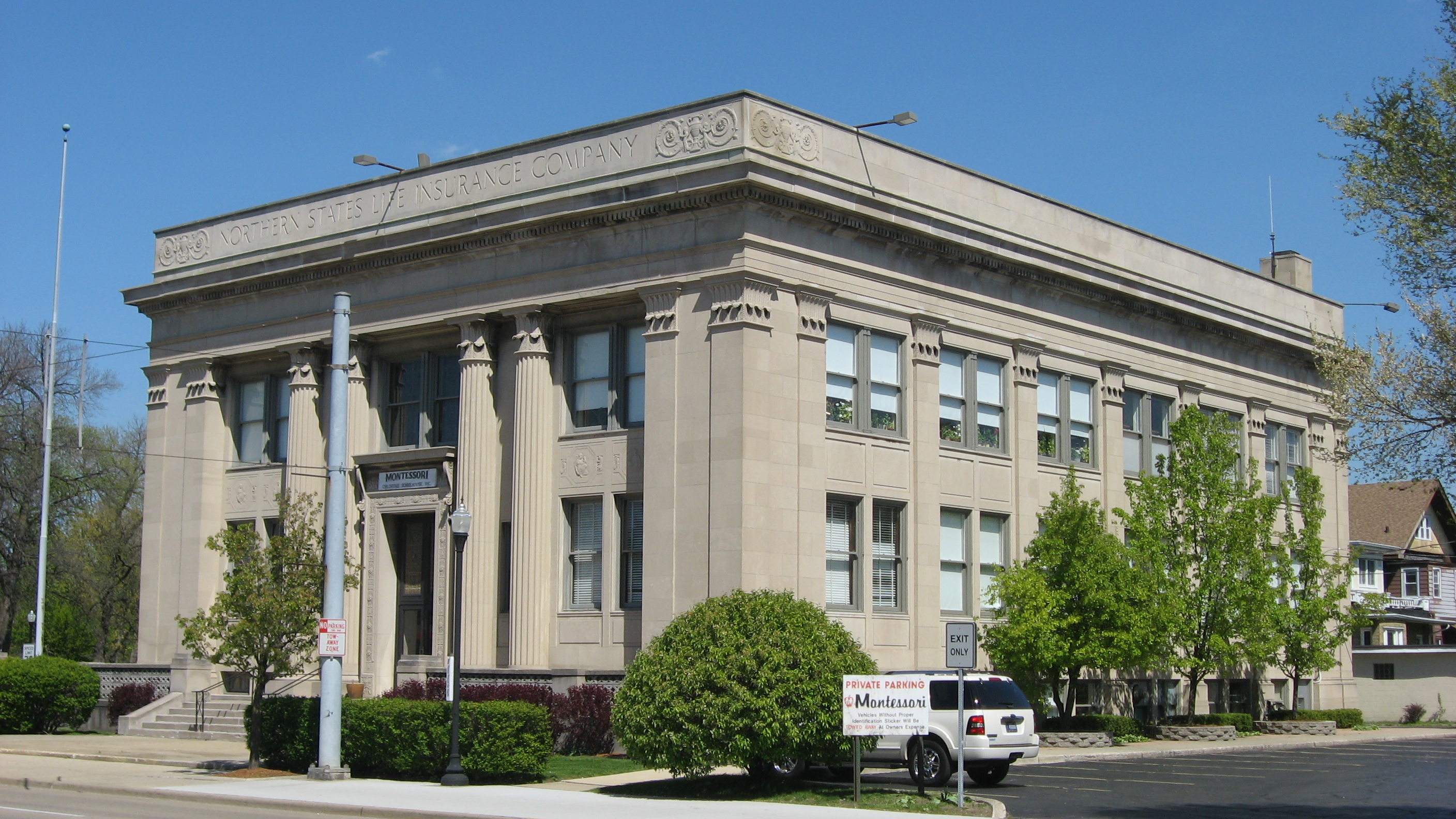 Front and southern side of the Northern States Life Insurance Company (now a Montessori school), located at 5935 Hohman Avenue in Hammond, Indiana, United States. Built in 1926, it is listed on the National Register of Historic Places.